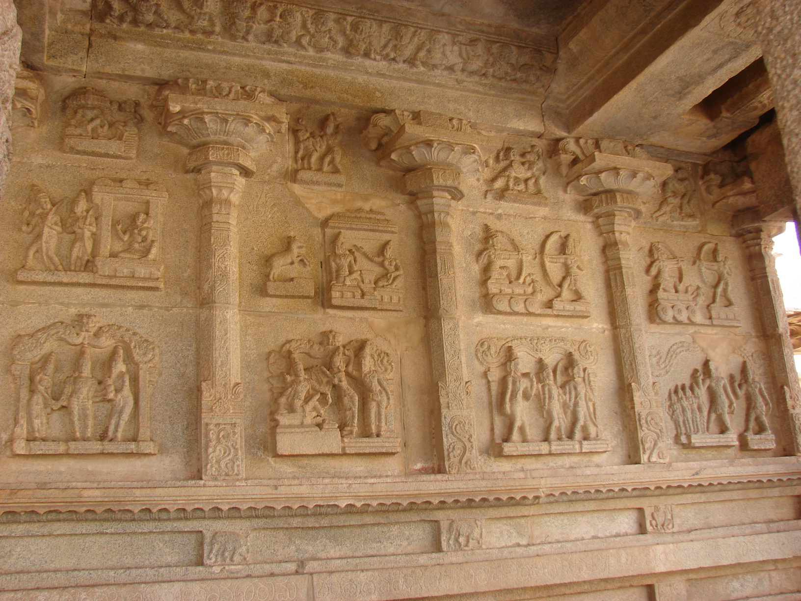 i)Hazara Ramachandra Temple- walls depcting the various stories in Ramayana and the battles.